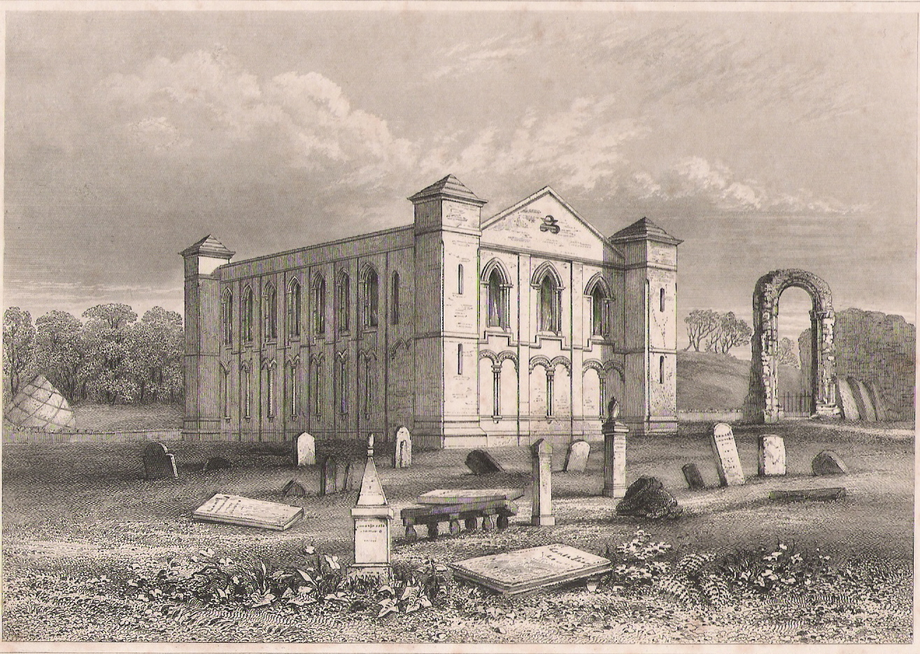 Taken from a book entitled History of the Priory of Coldingham by William King Hunter of Stoneshiel, Edinburgh, 1858. Out of copyright.